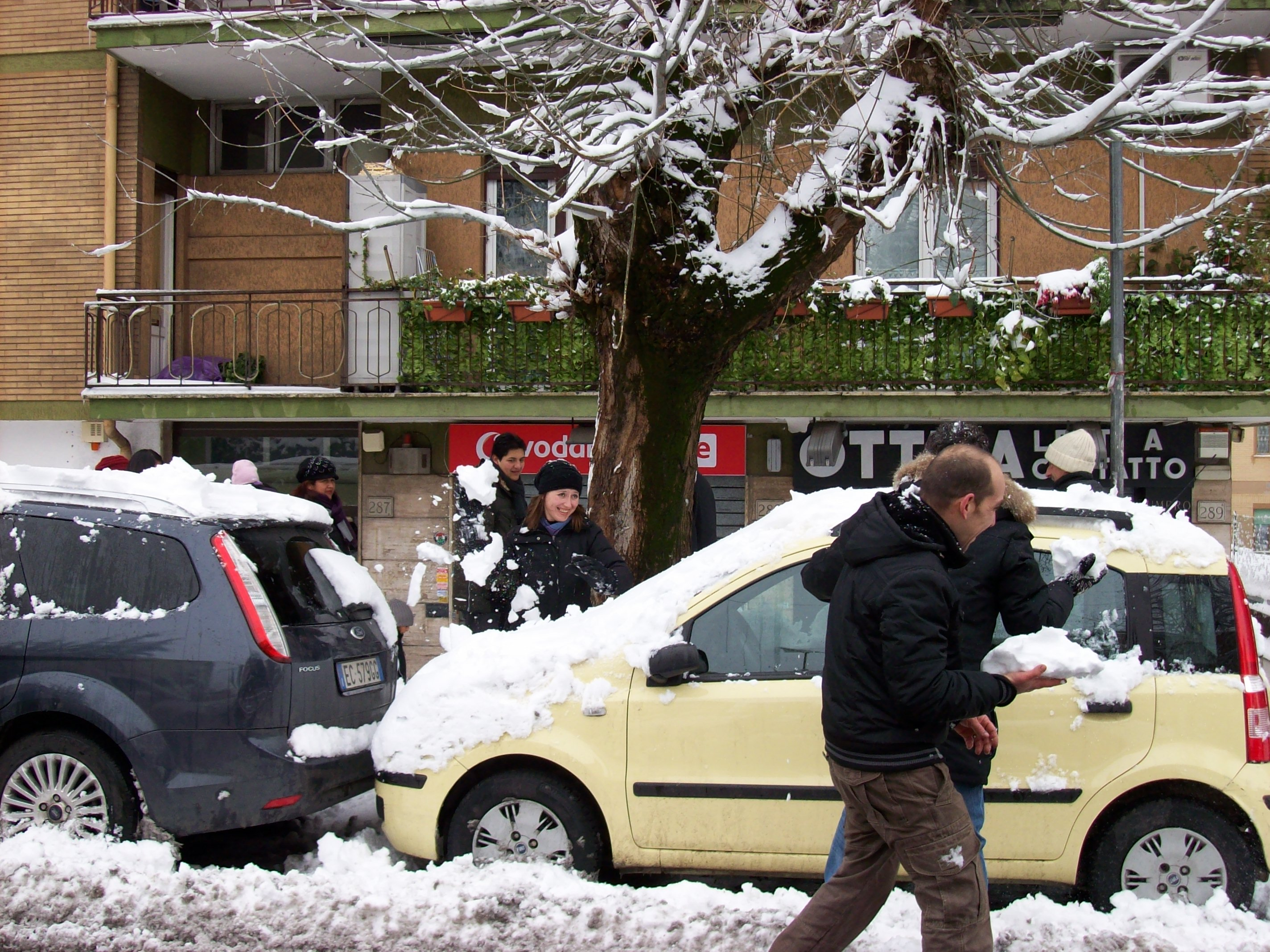 Rome, 4 February 2012 - Snowball fight amongst adults in Rome, after the biggest snowfall in the city since 1985 and two years after the 2010 snowfall.